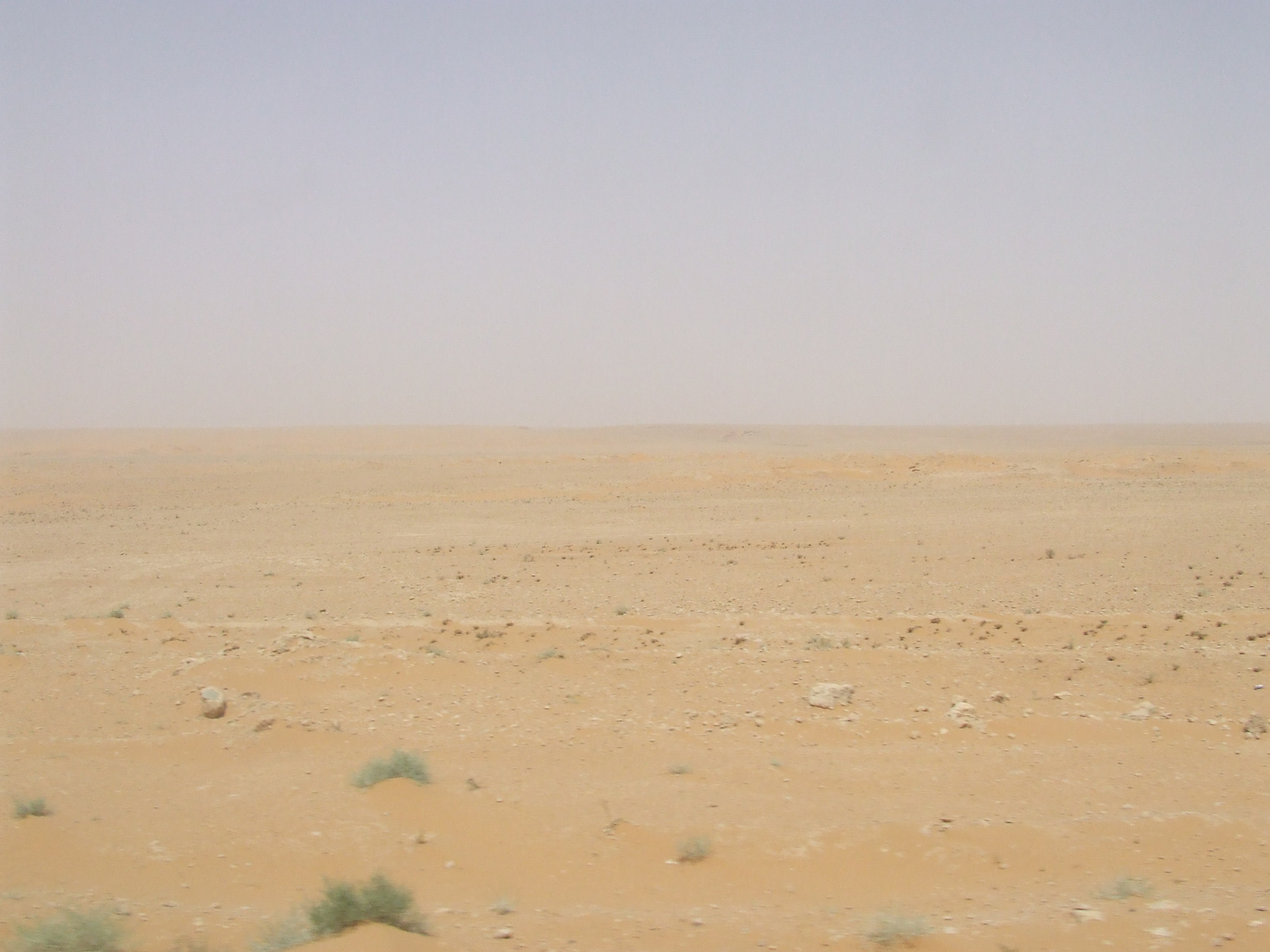 Syrian desert, somewhere between Dair-Az-Zur and Tadmor (Palmyra)